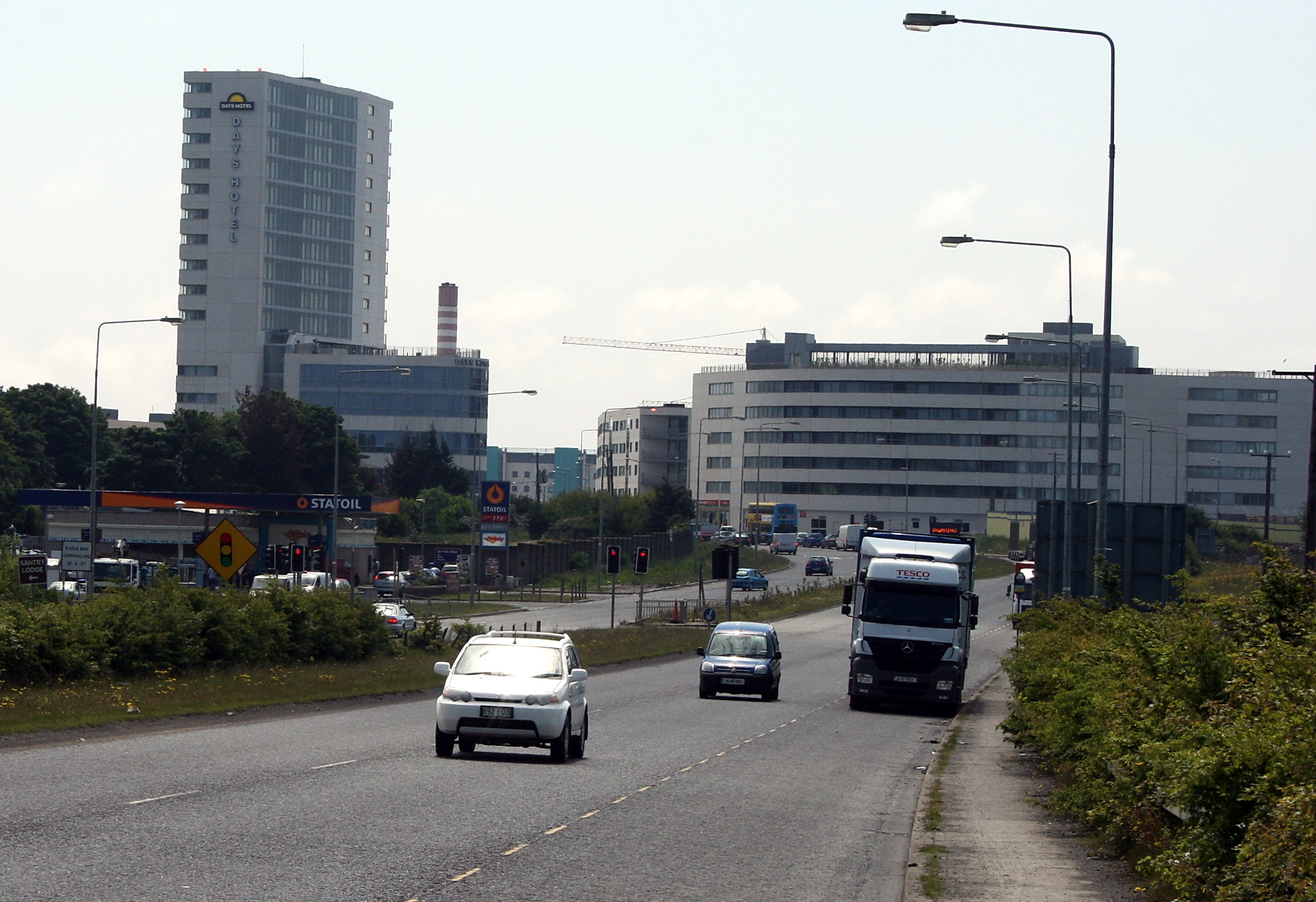 The R108 looking south in Ballymun, Dublin